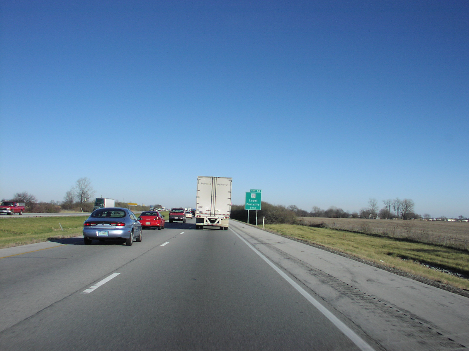 Interstate 69 near Fortville, Indiana